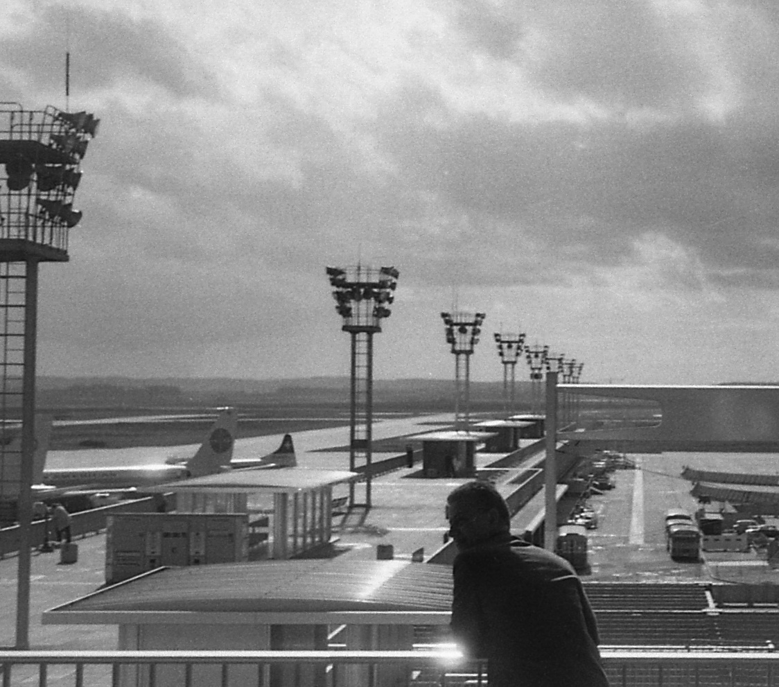 Orly Airport